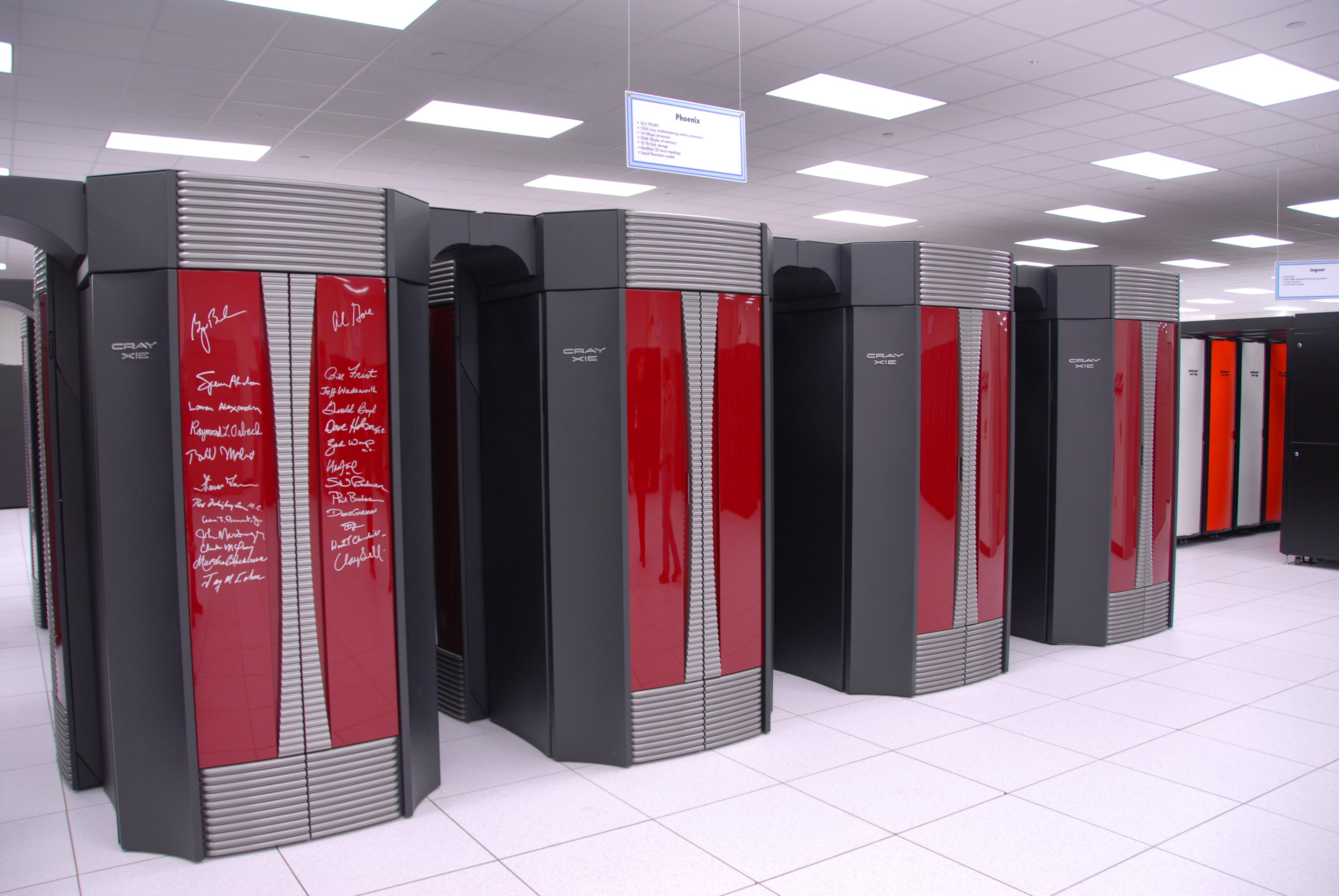 Phoenix, a Cray X1E at Oak Ridge National Lab